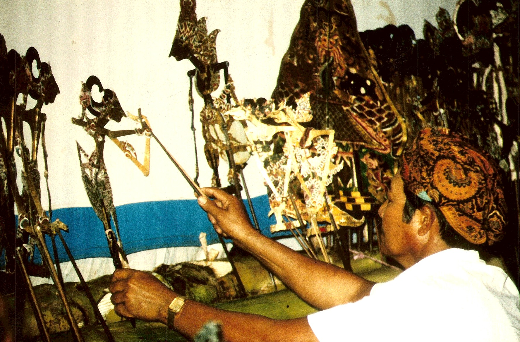 The dalang, a Surinamese-Javanese puppetplayer, plays scenes from the Ramayana, during a wedding ceremony, in the outskirts of Paramaribo, the capital of Suriname